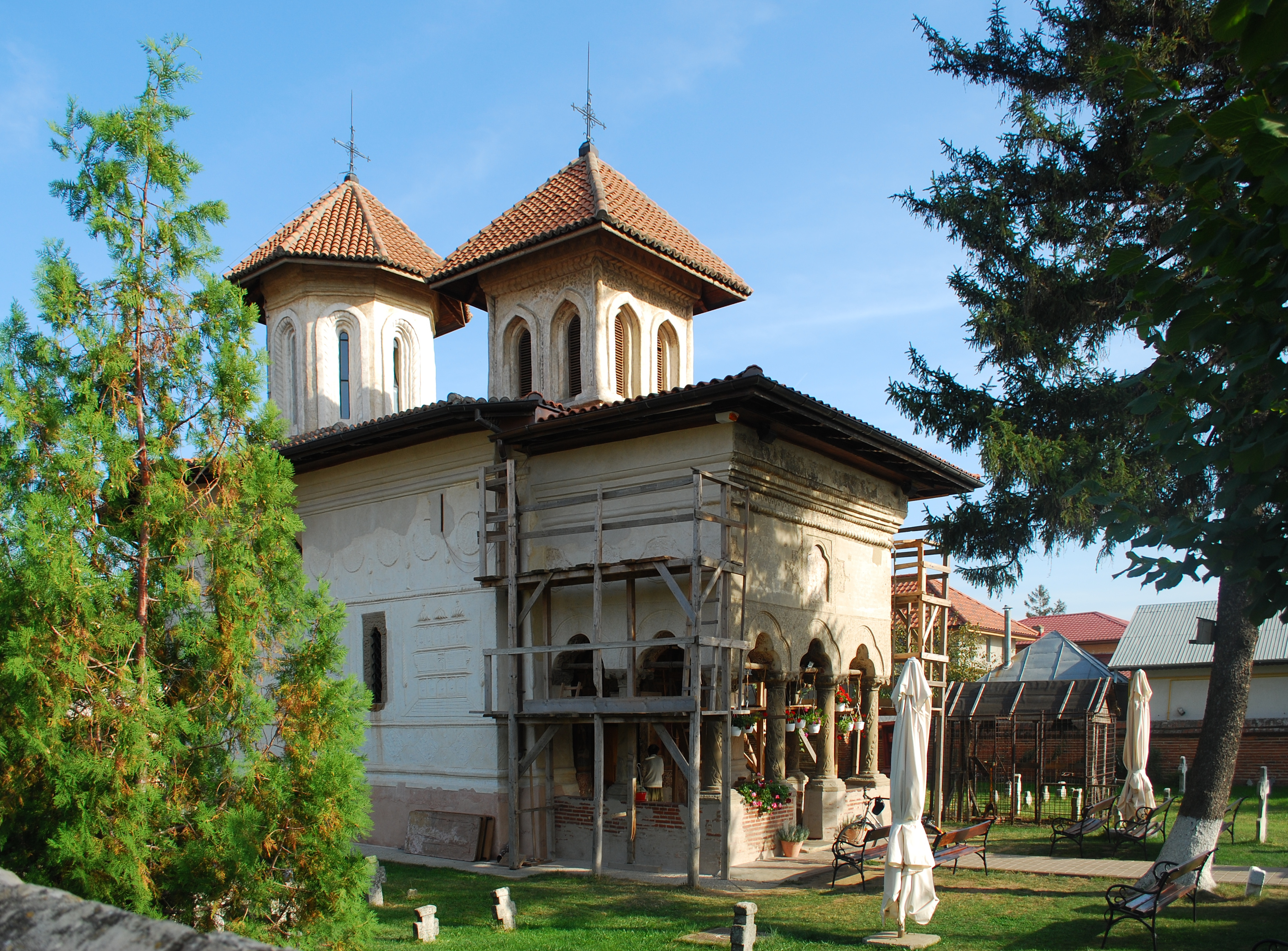 Saint Euthymius' church in Fundeni, Dobroești Commune, Ilfov County, RomaniaRomână: Biserica Sfântul Eftimie din satul Fundeni, comuna Dobroești, județul Ilfov, România